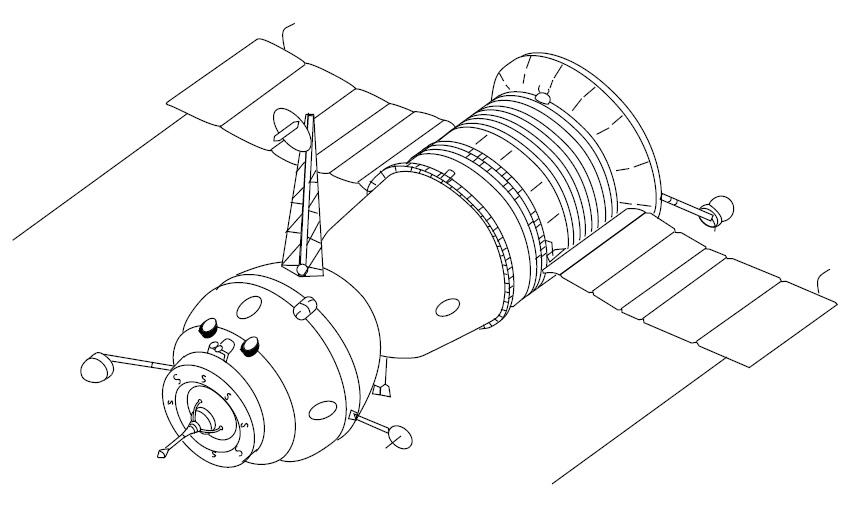 Figure 1-18. Salyut 1-type Soyuz. This was the Original Soyuz upgraded for Salyut space stations. The probe and drogue docking system (left) permitted internal transfer of cosmonauts from the Soyuz to the station.